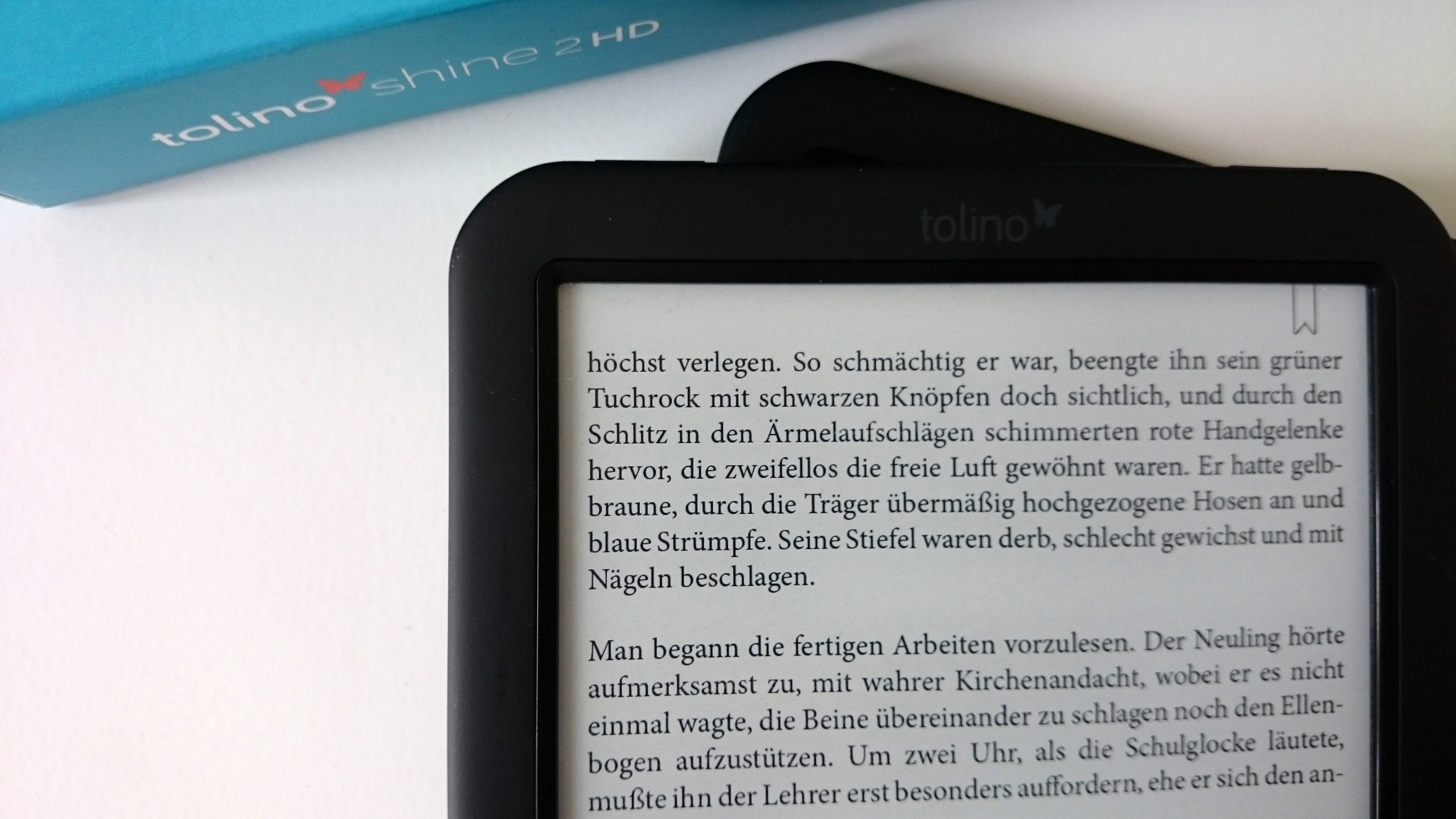 top display